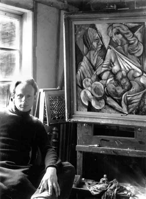 Artist Peter Benjamin Graham with his painting 'Old Age And Youth' at the Abby Arts Centre, England